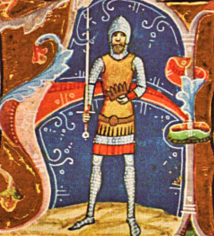 Samuel of Hungary